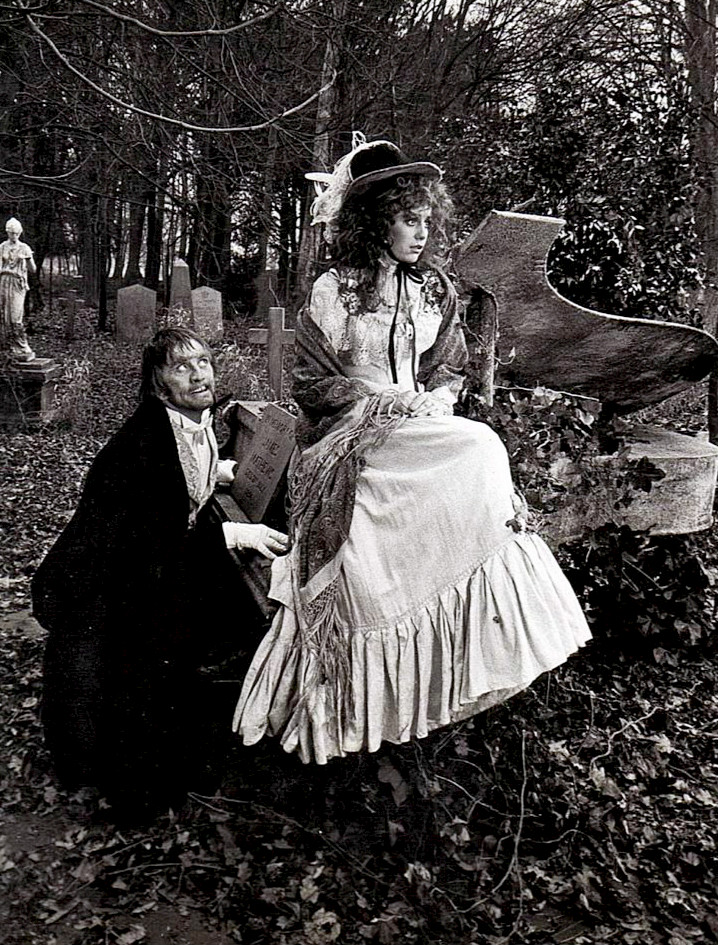 Photo of Kirk Douglas as Mr. Hyde trying to amuse Annie, the dance hall girl, played by Susan George, in a musical television production of Dr. Jekyll and Mr. Hyde.